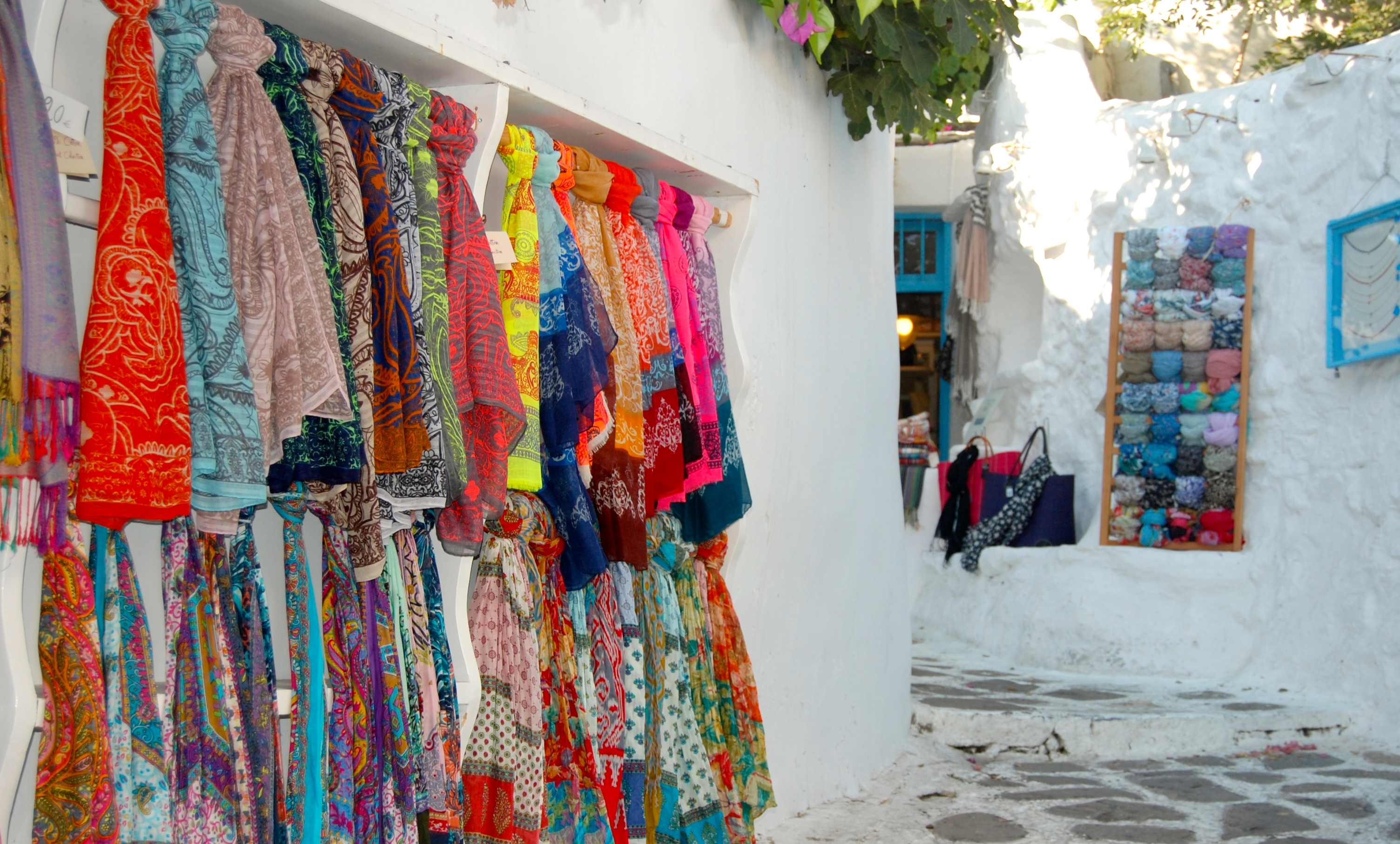 Handkerchiefs in a street of Mykonos (Chora), Greece.